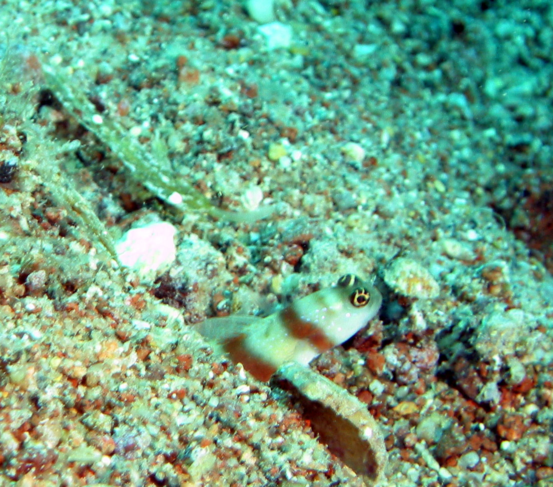 Amblyeleotris steinitzi, Steinitz's shrimpgoby, Taba red sea